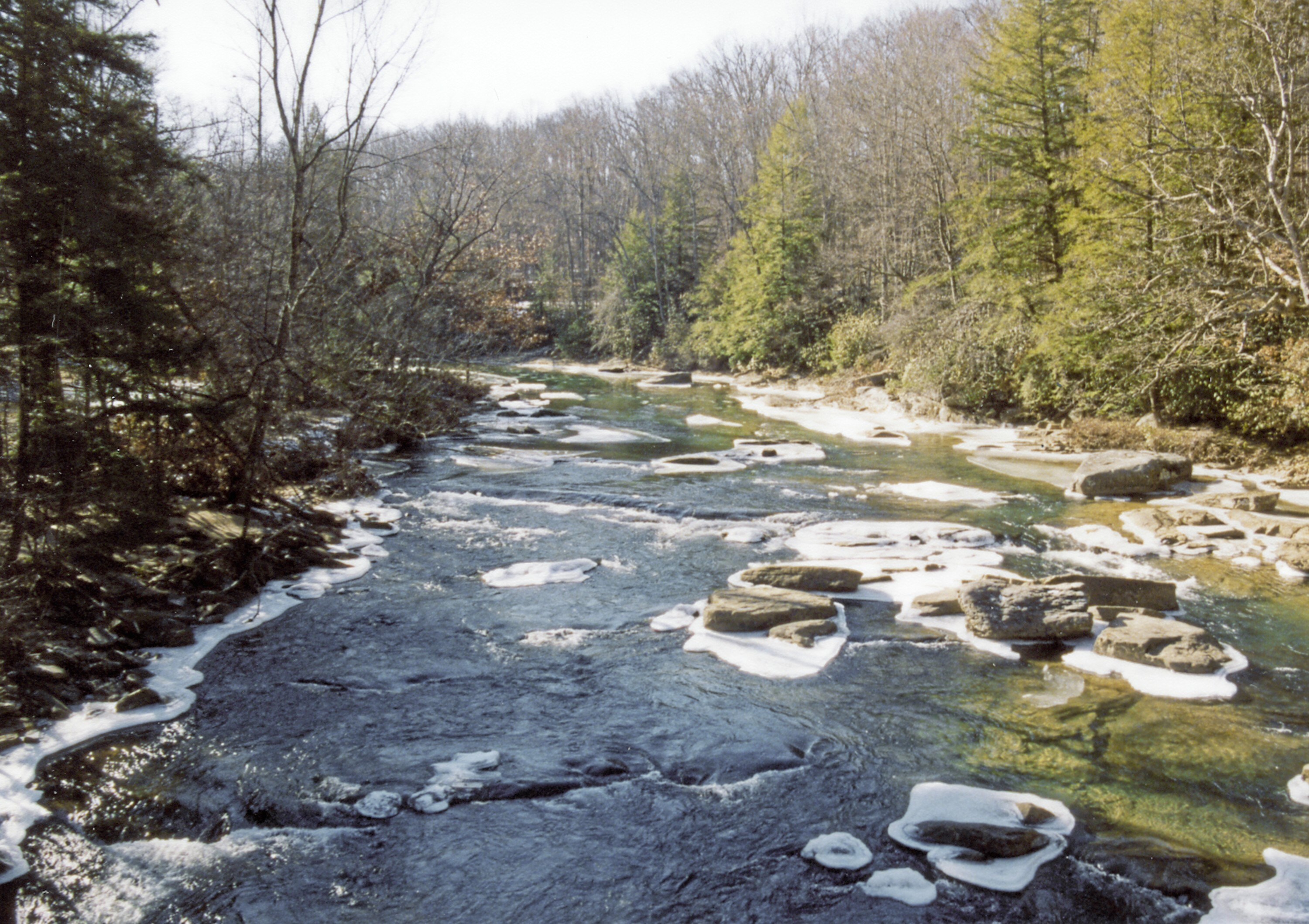 The Middle Fork River as viewed from County Road 11 in Audra State Park in Barbour County, West Virginia